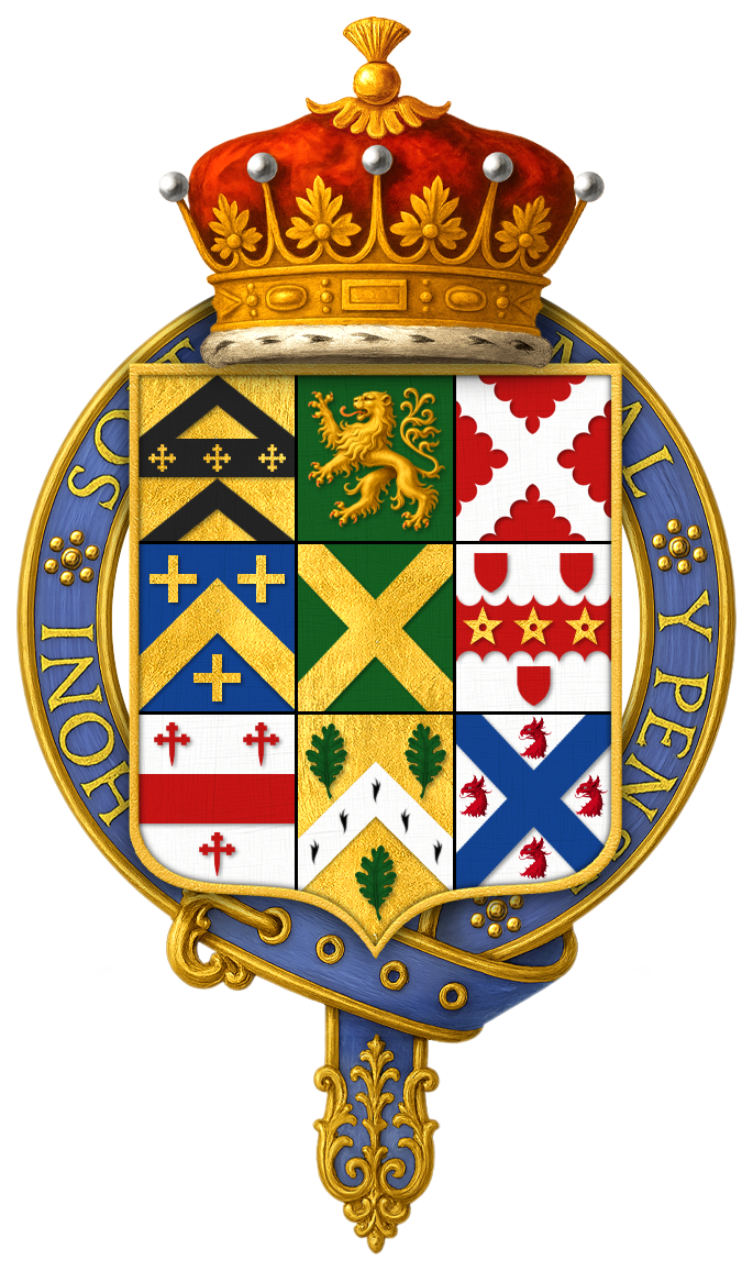 Coat of arms of Robert Walpole, 1st Earl of Orford, KG, KB, PC. 9 quarters: 1: Walpole 2: Robsart (Vert, a lion rampant or, for Sir John Robsart, 1445[1]) 7: Crane